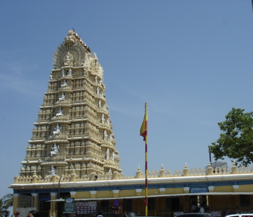 A view of the Chamundesvari Temple on the Chamunda Hilla in Mysore.